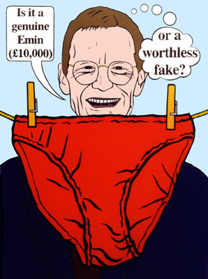 Sir Nicholas Serota Makes an Acquisitions Decision. Note the file size of the version released, this image should remain at 298×400 pixels.